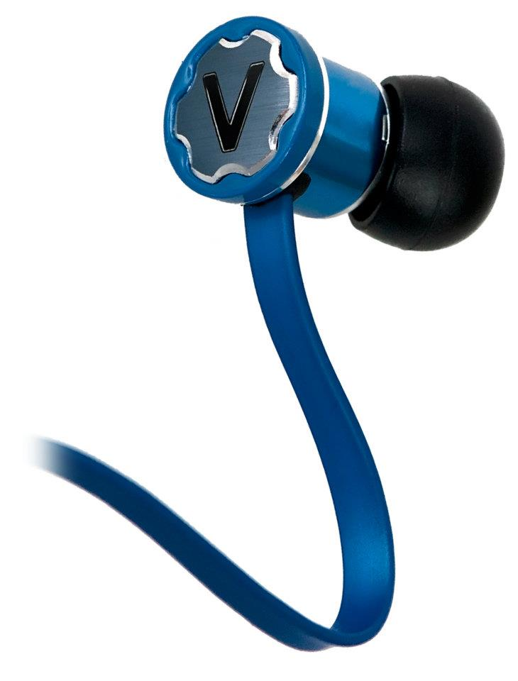 Velodyne's first headphone product, the vPulse, in signature electric blue